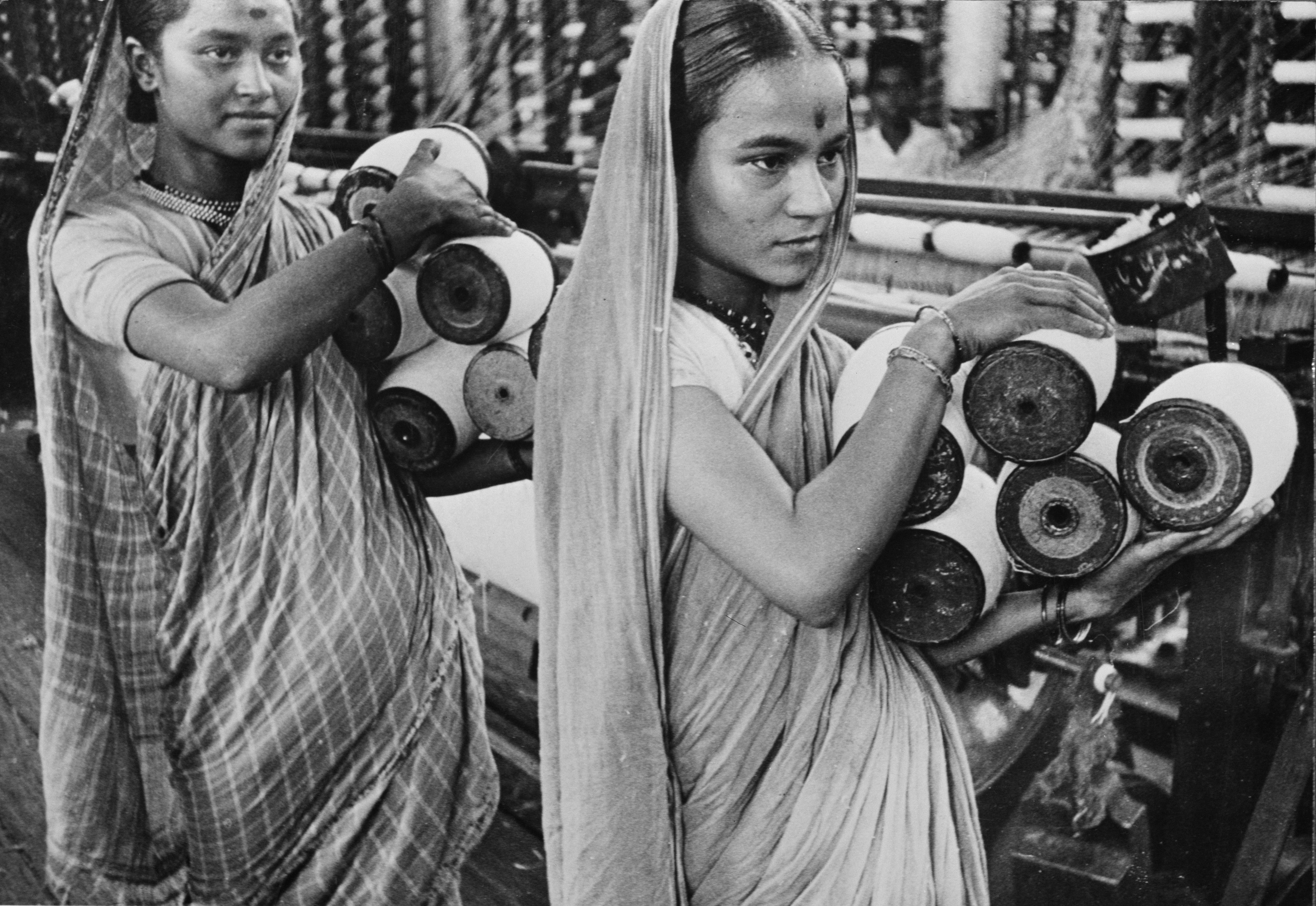 India in the war. Girl workers in a booming Bombay textile mill. Thirty-five percent of India's great cotton textiles production, amounting to some 5,000,000,000 yards a year, is going into war materials for India and United Nations. LC-USE6-D-008634 (b&w film nitrate neg.) LC-DIG-fsa-8b09843 (digital file from original neg.)